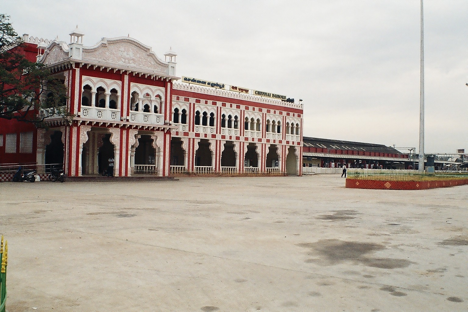 The back gateway to the City's second largest station.